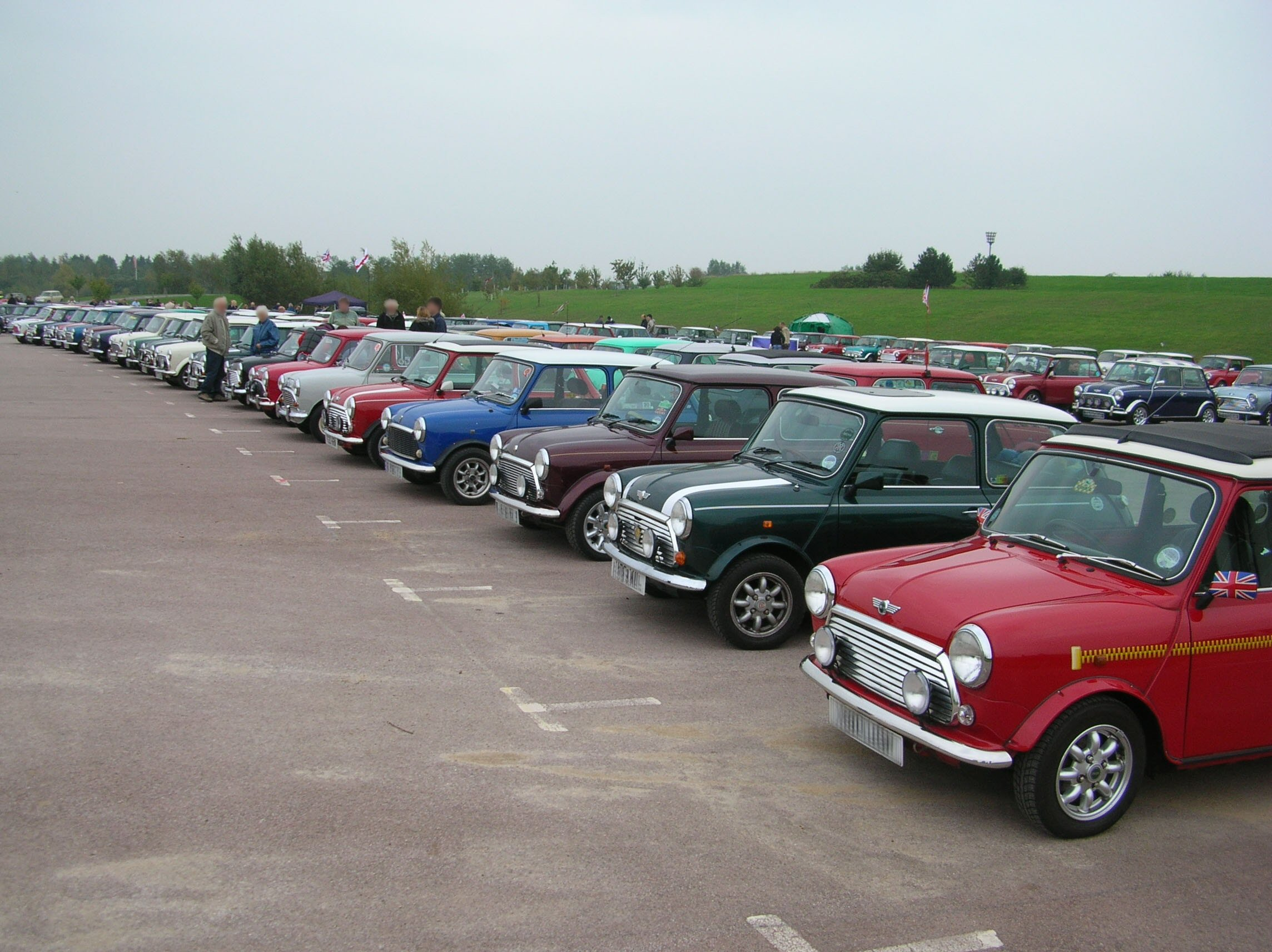 Minis at the Alec Issigonis centenary rally in 2006 at the Heritage Motor Centre, Gaydon, UK